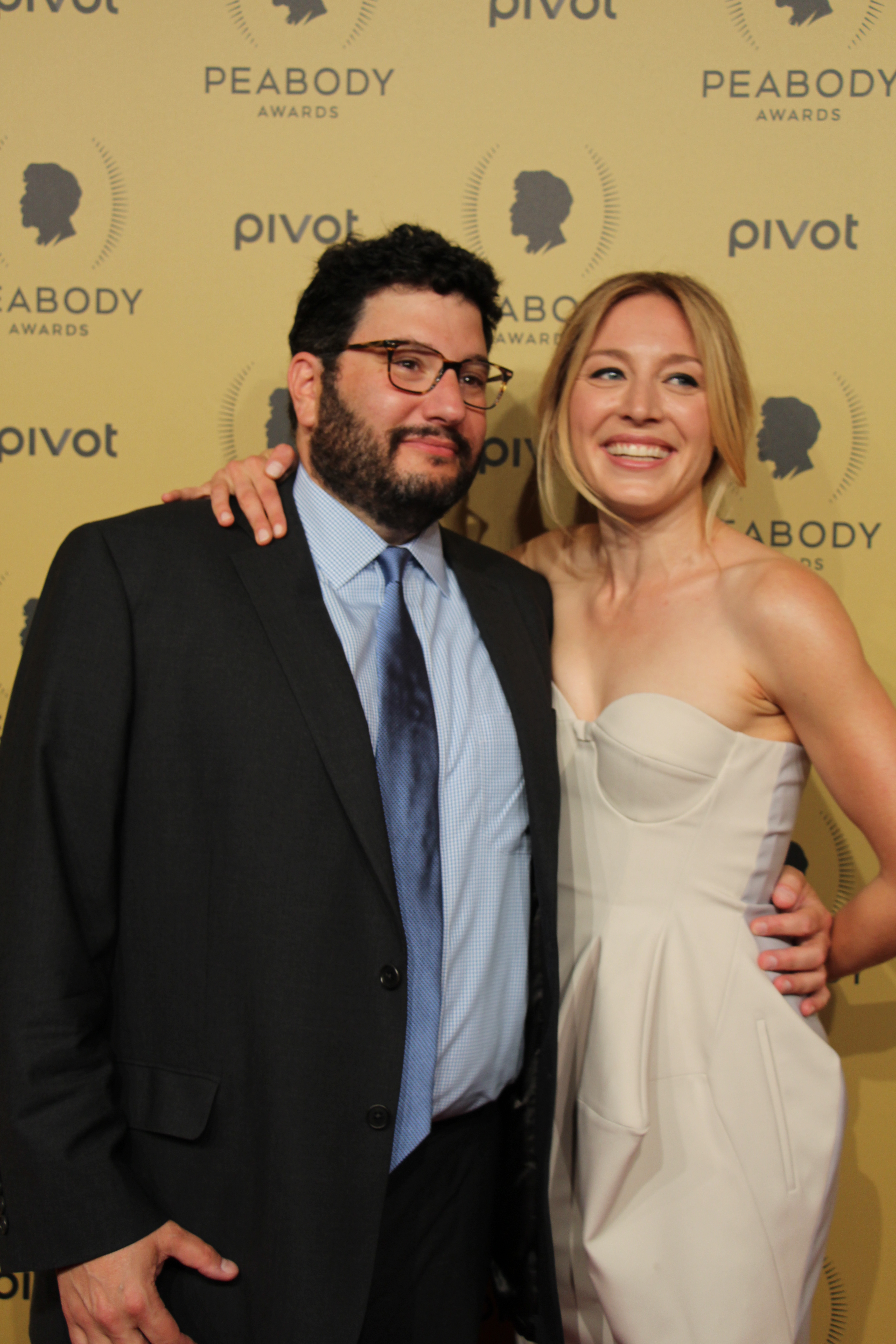 The Knick Creator Jack Amiel and Juliet Rylance, who plays Cornelia Robinson on The Knick, pose for a picture on the red carpet.